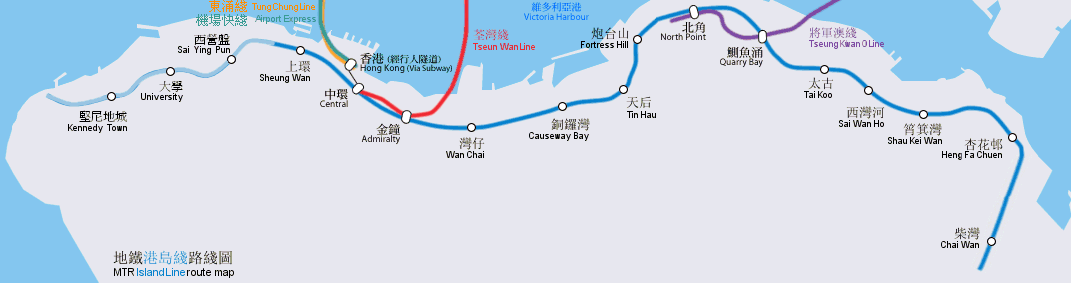 地鐵港島綫路線圖（按真實地形繪畫）, 包含西港島延綫 Geographically accurate map of the MTR Island Line, including the proposed West Island extension. By Bus_28a, Mtrkwt (Island Line united style version by User:Sameboat) new version: Image:ISL ga map.png